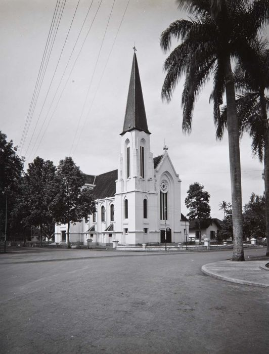 Catholic church